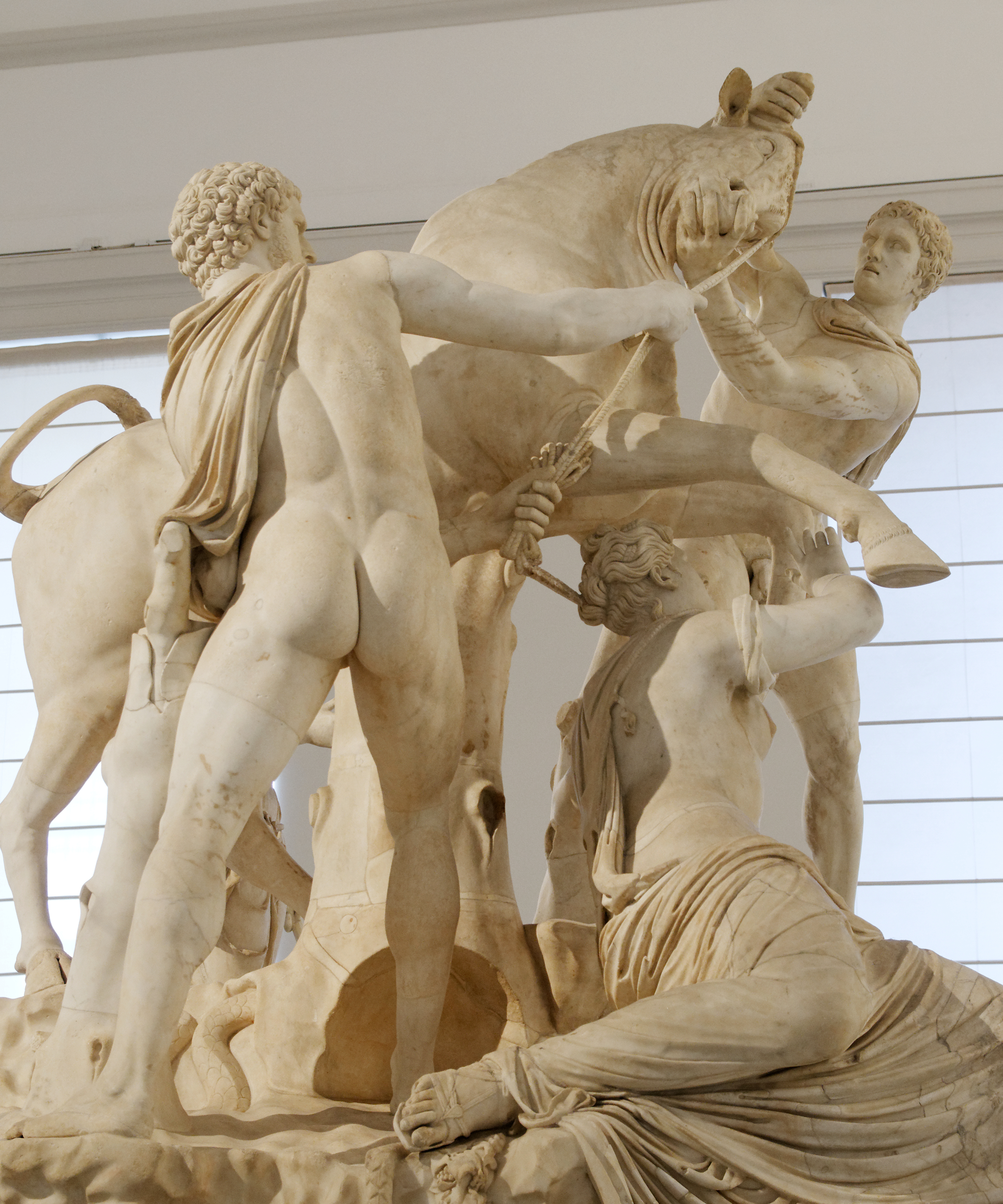 The death of Dirce, detail. Roman adaptation of the Imperial era after a Greek original of the Early Hellenistic era; heavy modern restorations.